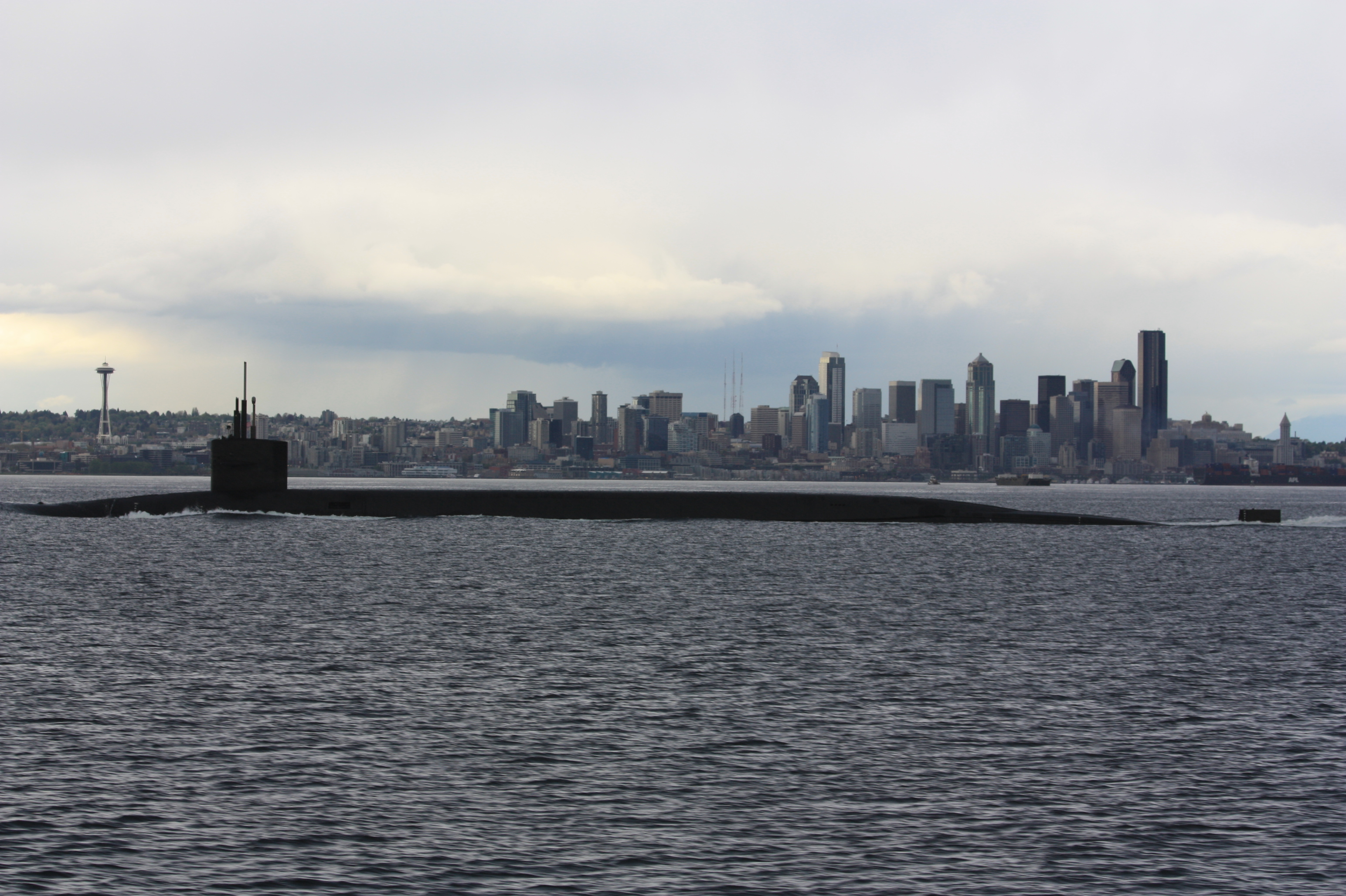 USS Nevada SSBN 733 transitting north in front of Seattle.